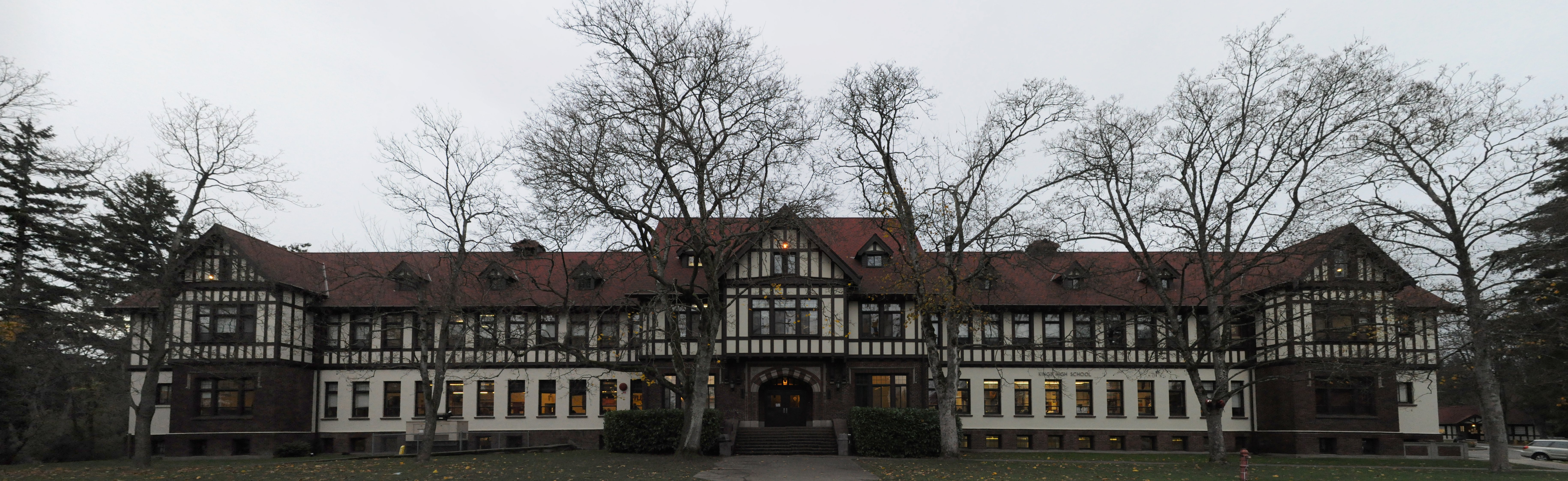 Rectlinear panorama of Crista Ministries' King's High School, Richmond Highlands, Shoreline Washington, USA. The building, designed by Daniel R. Huntington, was built 1913-1914 as the Firland Tuberculosis Hospital. This image was created with Hugin